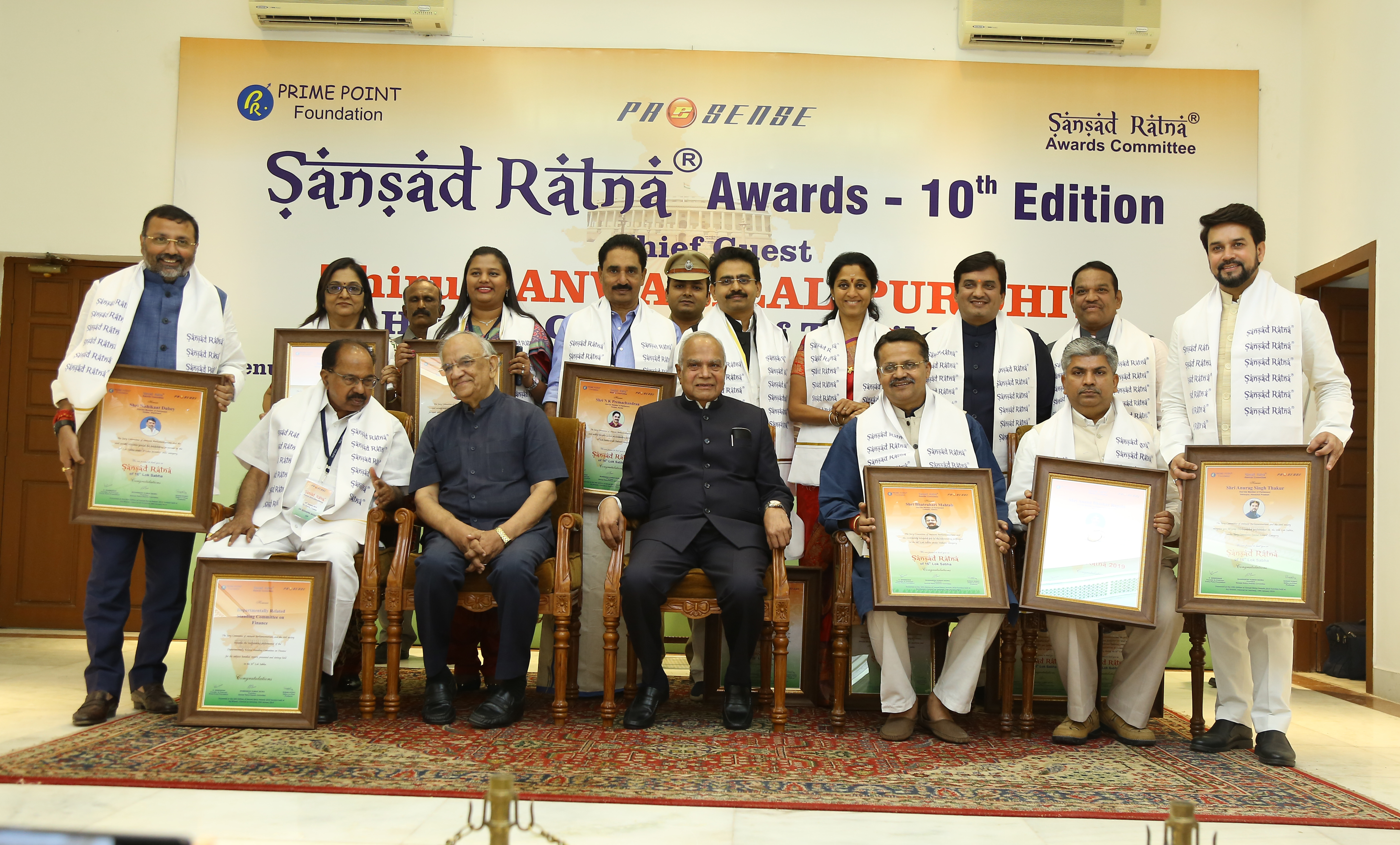 Sansad Ratna Awards 2019 for 16th Lok Sabha were presented at Raj Bhavan, Chennai, India on 19th January 2019 to the outstanding Indian Parliamentarians.